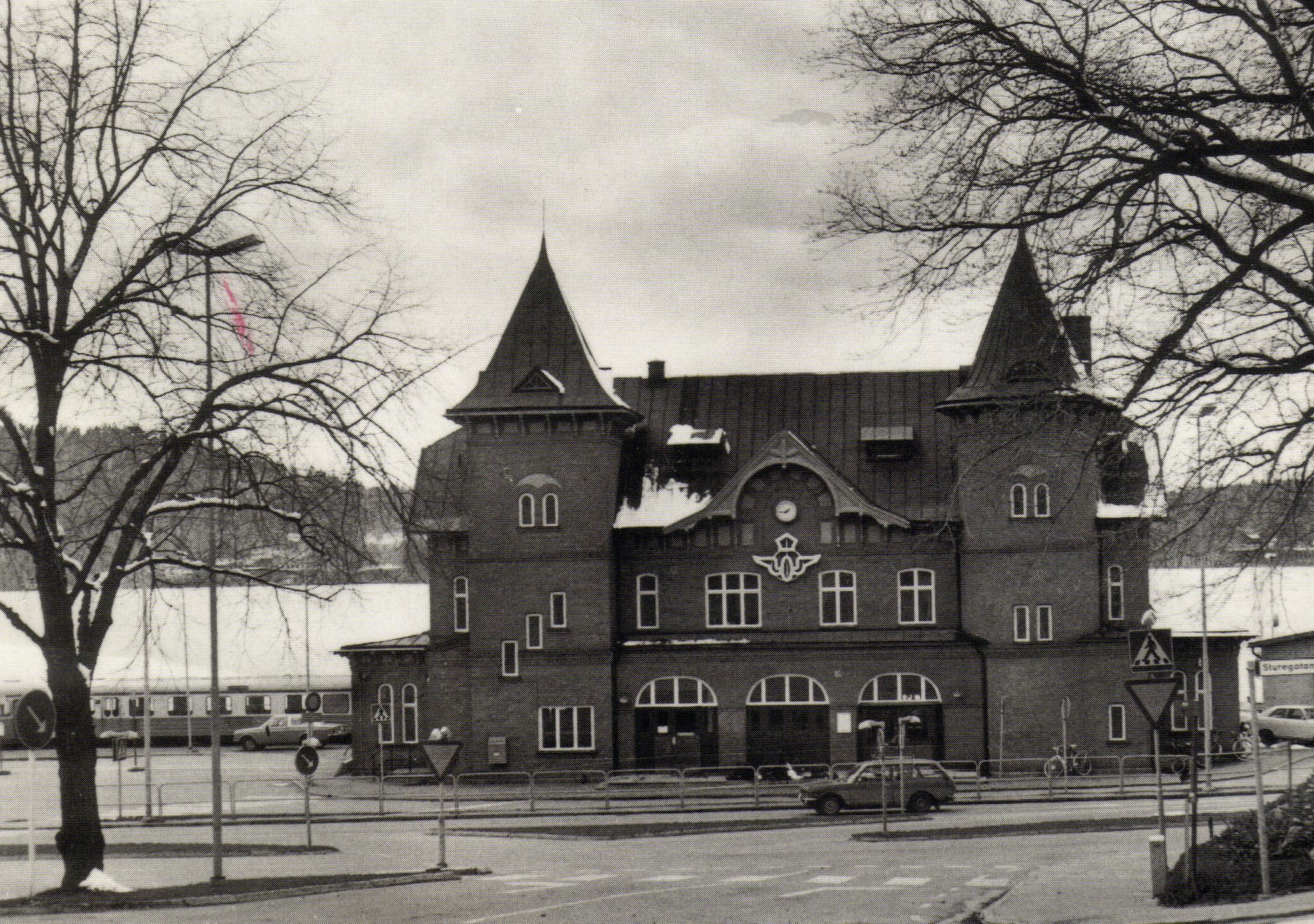 The station of Ulricehamn 1984